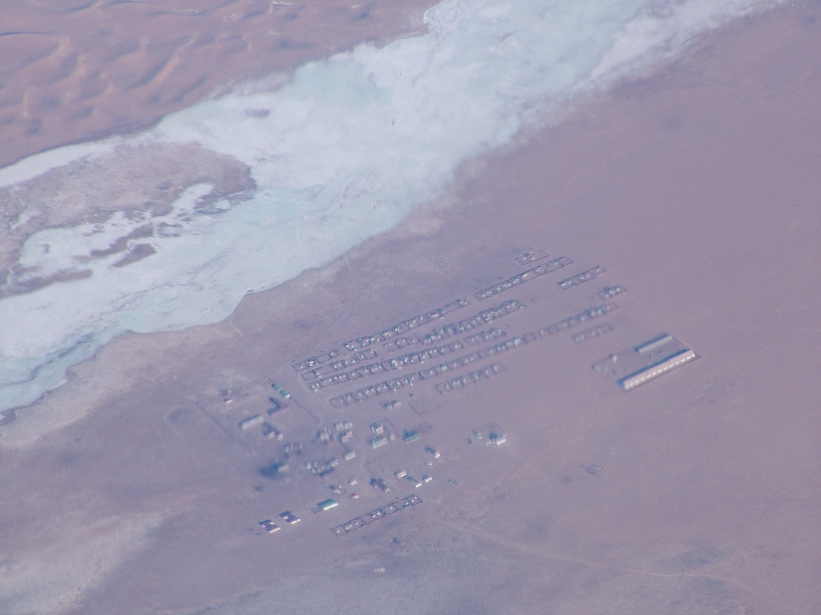 Taken onboard a flight from Hong Kong to London